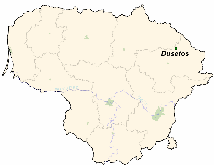 Dusetos on the map of Lithuania